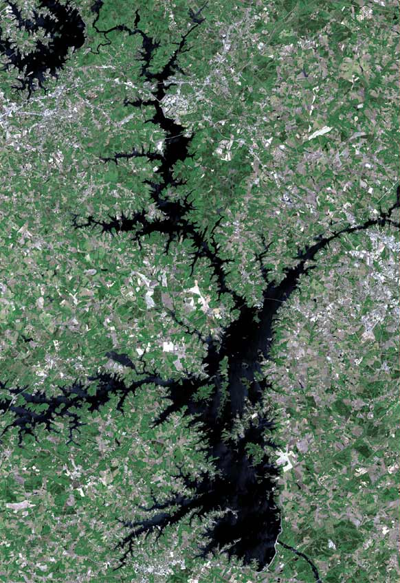 The raw satellite imagery shown in these images was obtain from NASA and/or the US Geological Survey. Post-processing and production by